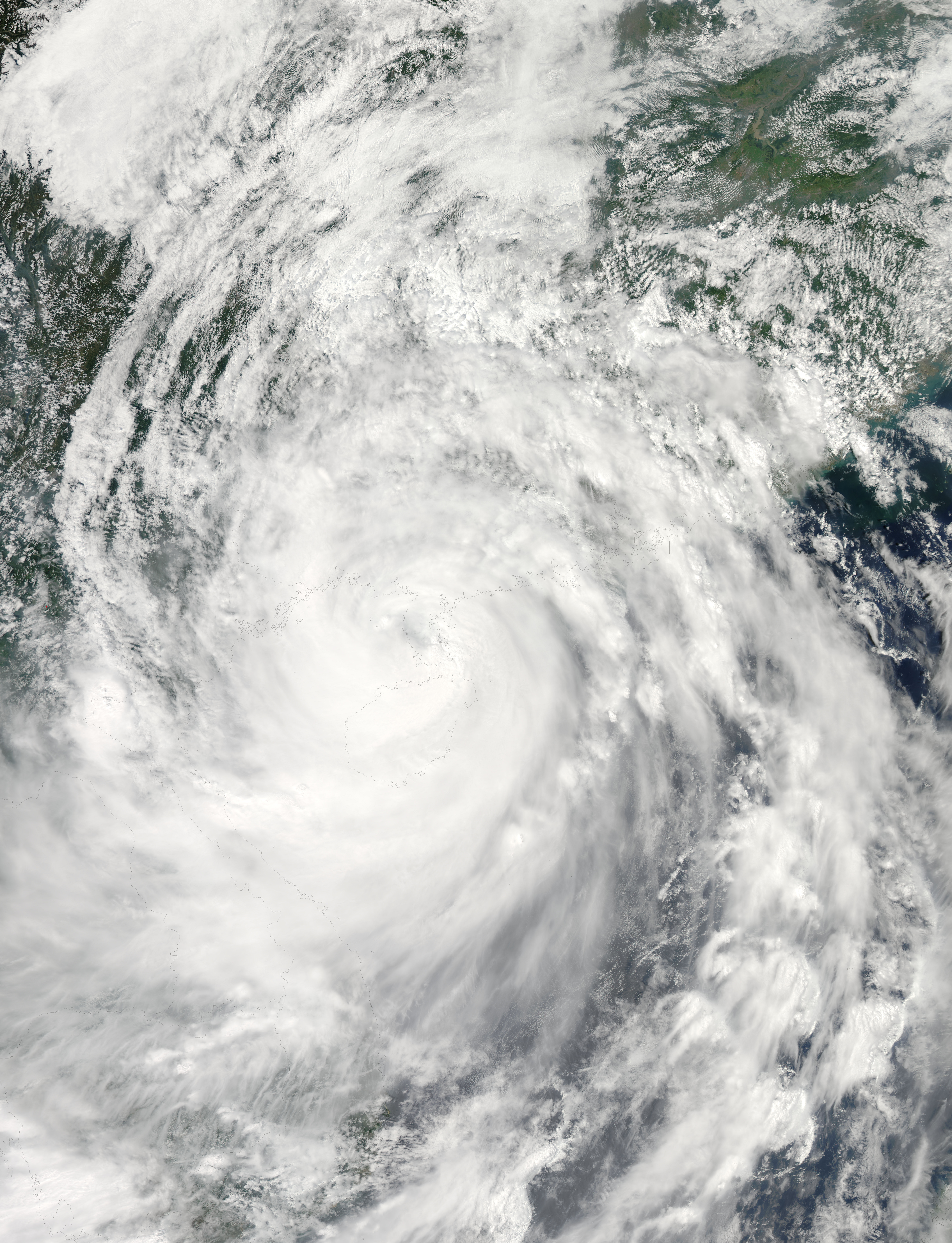 Typhoon Kalmaegi (15W) over China and Indochina